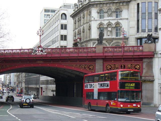 Holborn Viaduct Flyover carrying Holburn Viaduct (built 1863) traffic over that of Farringdon Street.